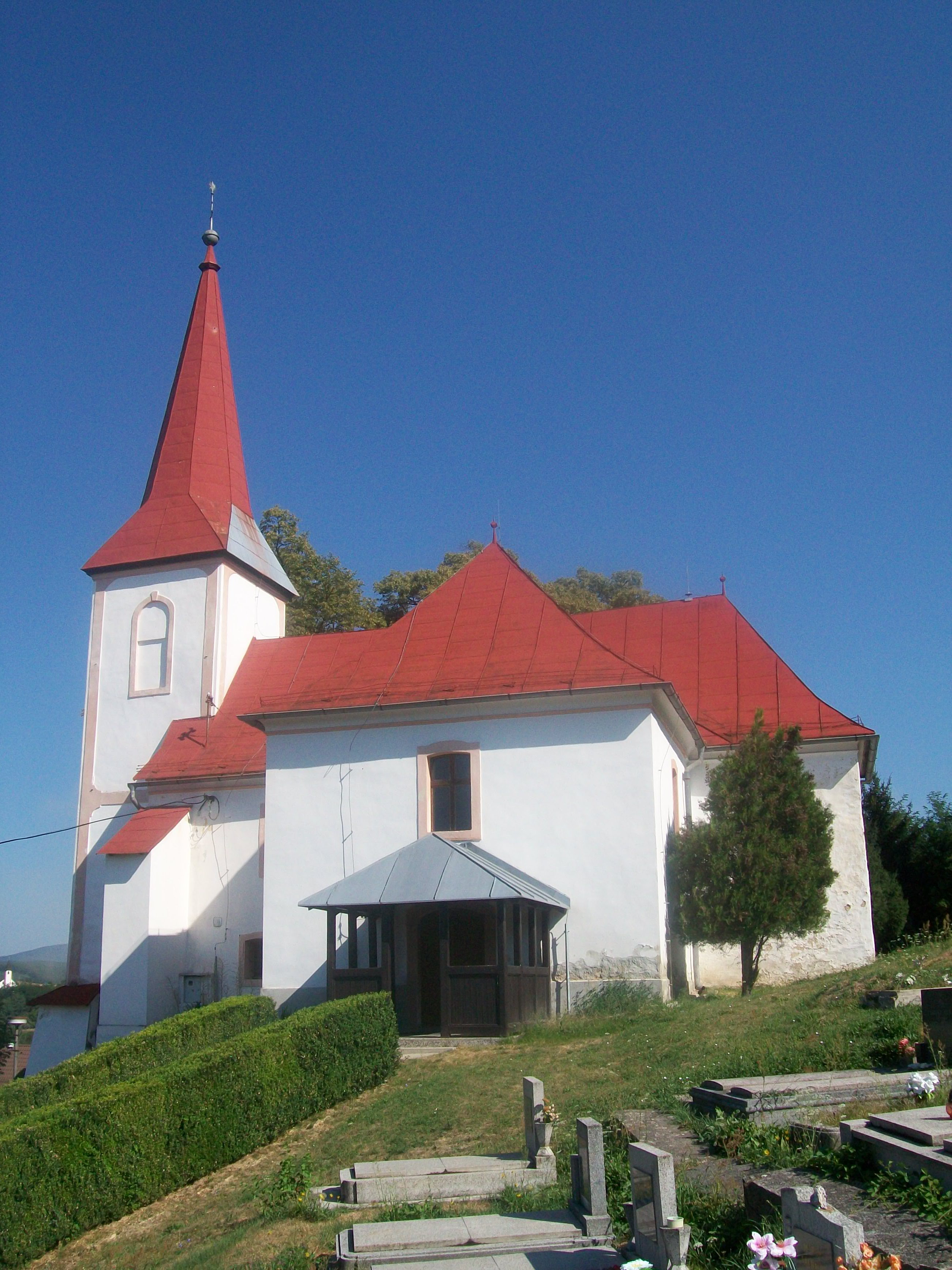 Evangelical Church in Kalinovo.